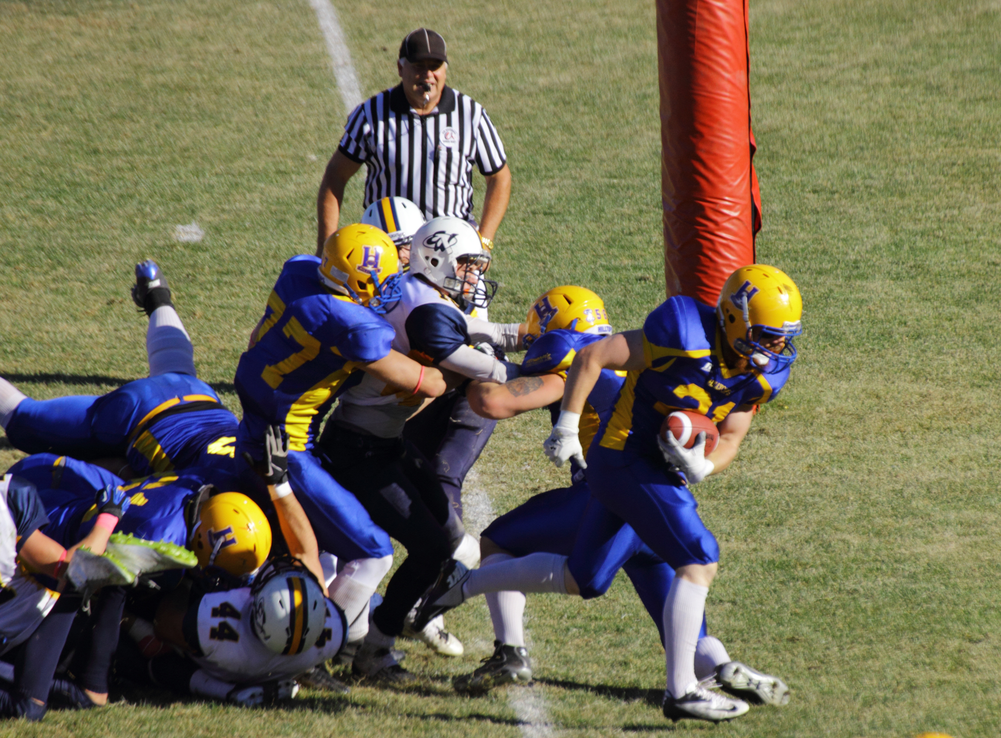 Sunday October 14, 2012 1:00 p.m. Junior Football game in the Prairie Football Conference (PFC). Canadian Junior Football League teams included Edmonton and Saskatoon. Saskatoon Hilltops were the home team at Gordie Howe Bowl home to the Saskatoon Hilltops . The game concluded at Hilltops 42-11 Wildcats. The Hilltops will continue in the playoffs advancing to the PFC Final next Sunday, October 21, 2012. The Regina Thunder defeated the Calgary Colts 24-21. Hilltops meet the Thunder at Gordie Howe Bowl. The champion of the PFC final will receive the hosting rights for the Jostens Cup. The Jostens Cup is played between the OFC Champion and PFC Champion Teams. The Jostens Cup winner goes on to play the BCFC Champion for the Canadian Bowl Championship. This is the beginning of the second half, with the score being 11 Hilltops, 1 Wildcats. The games starts with a fumble by the Wildcats on the first reception. Hilltops are on the 37 yard line. They run a series at 3rd and nine yards to go they punt to the Wildcats. Wildcats are on the third yard line first and ten to go. Interception! Hilltops ball. Hilltops Number 21 Tom Shockey makes the touch down. Flag on the play. Wildcats offside declined, touch down is good. With the convert the score becomes 18 Hilltops 1 Wildcats, 13:09 on the clock.